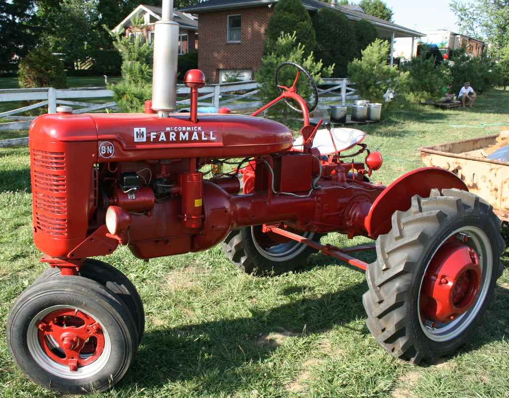 Unknown Farmall model, beautifully restored. Source: Original photo (Clarksville, MD, 06/23/07)